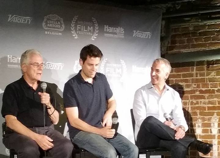 Jeffrey Lyons, Ben Lyons, Scott Mantz - American Comedy Co.- Sep 30, 2016